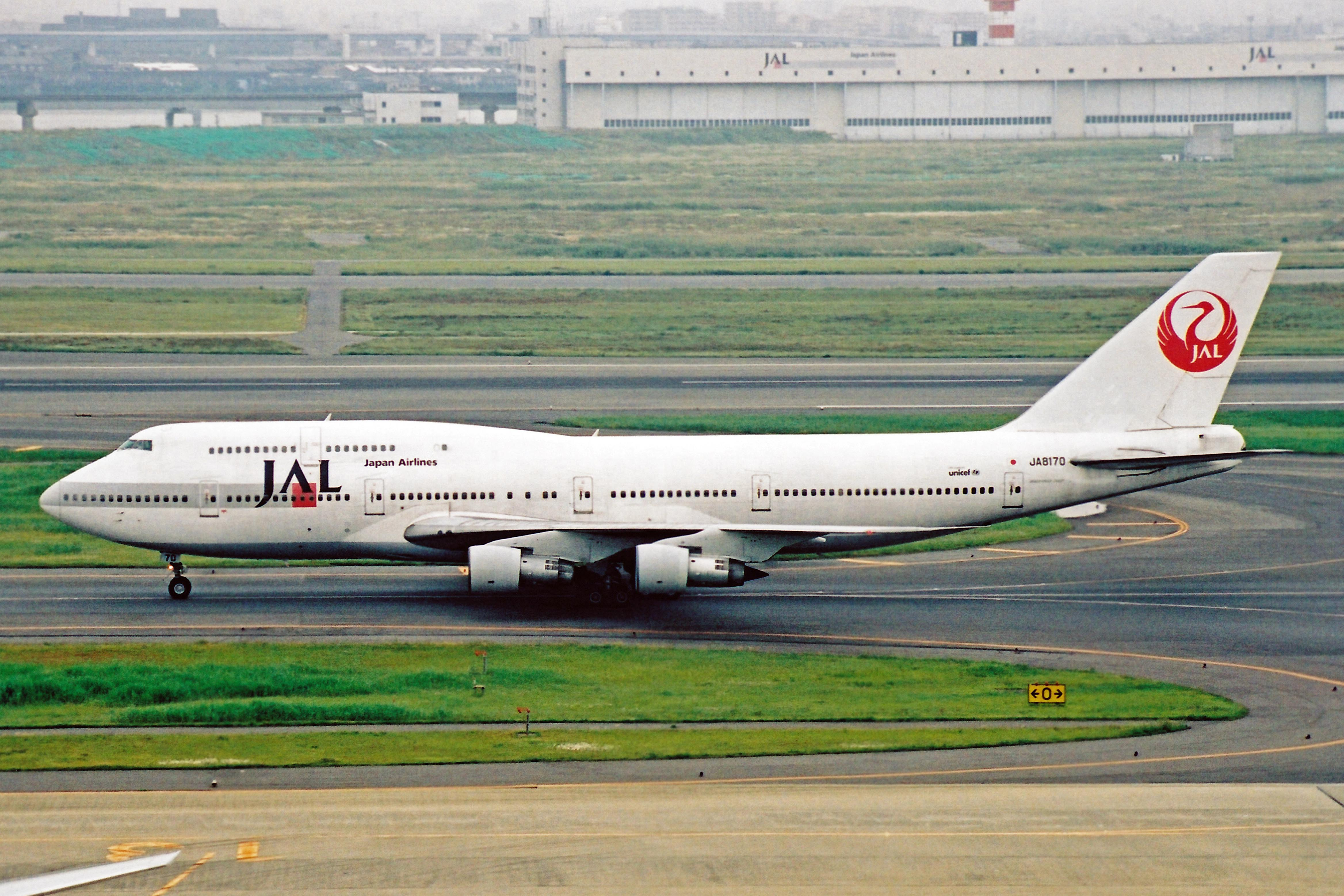 Japan Airlines had some of their late-build B747-100's built with the -300 series stretched upper deck for use on high density domestic services. KLM were the only other airline to have some of their B747-200's modified to 'SUD' standard.